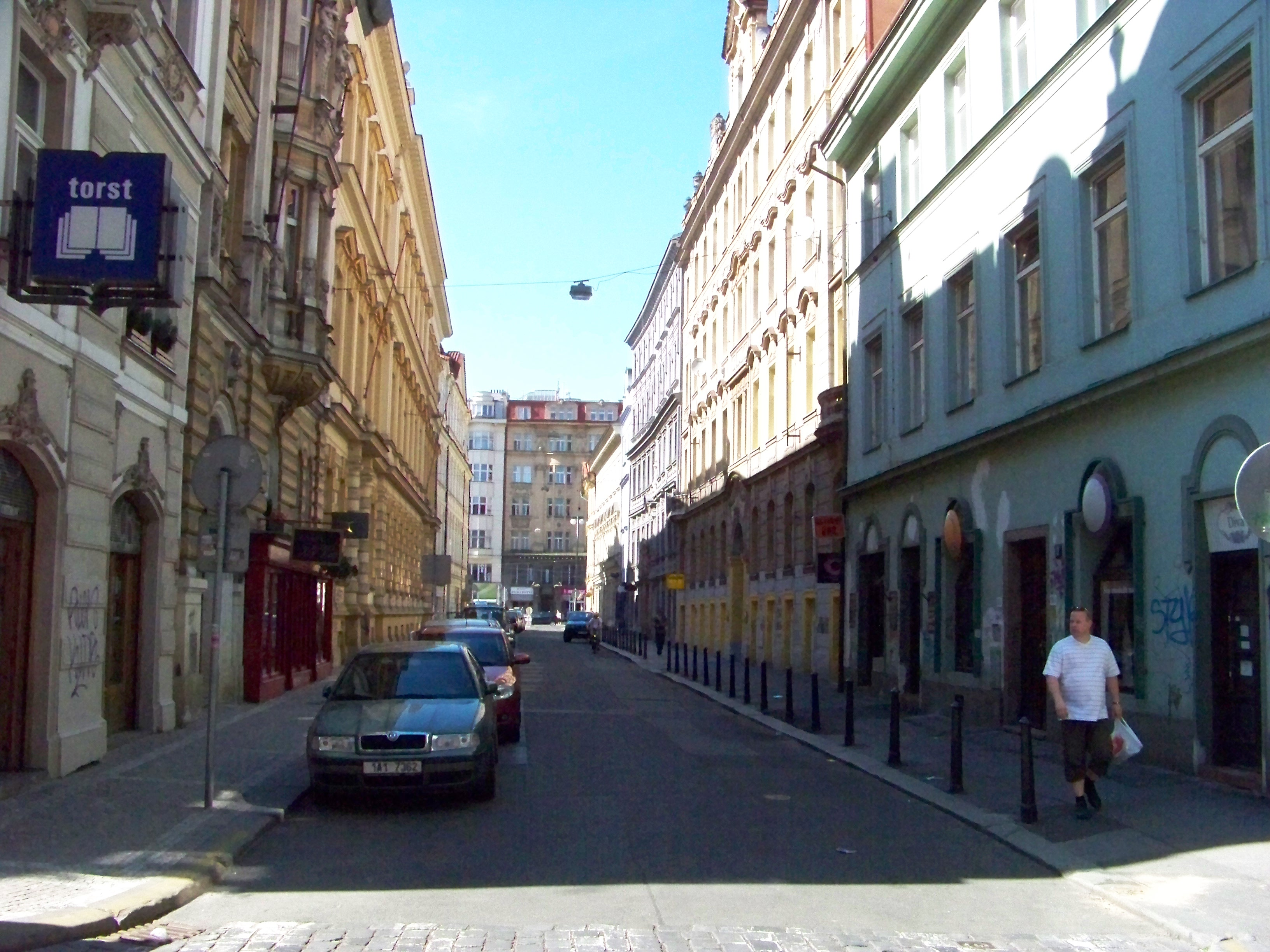 Prague-New Town, the Czech Republic. Mikulandská street. - OpenStreetMap(Info)